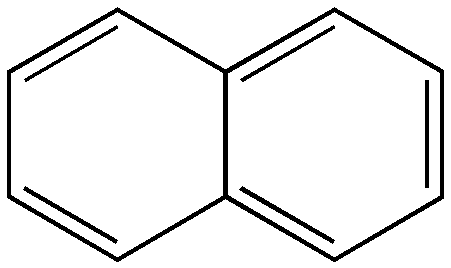 skeletal chemical structure of naphthalene made using chemdraw 9 by jpiper 16:23, 18 August 2006 (UTC)